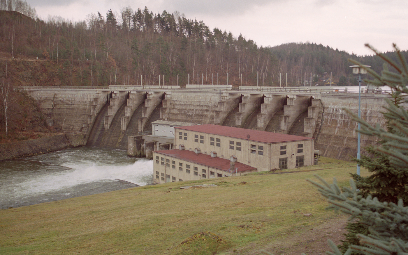 Dam Kriebstein in Germany